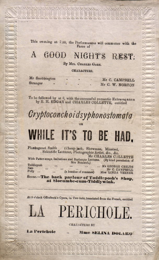 Scan of original Royalty Theatre programme from March 1875. (Faint pencil note on front page appears to read "25/3/75", but the three items of the bill shown in this image played together earlier in March 1875 and not on 25th.)